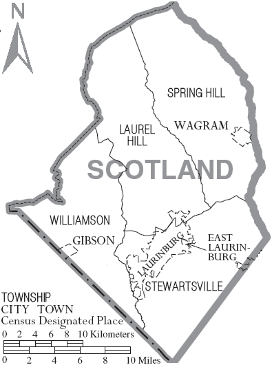 Map of Scotland County, North Carolina, United States with township and municipal boundaries